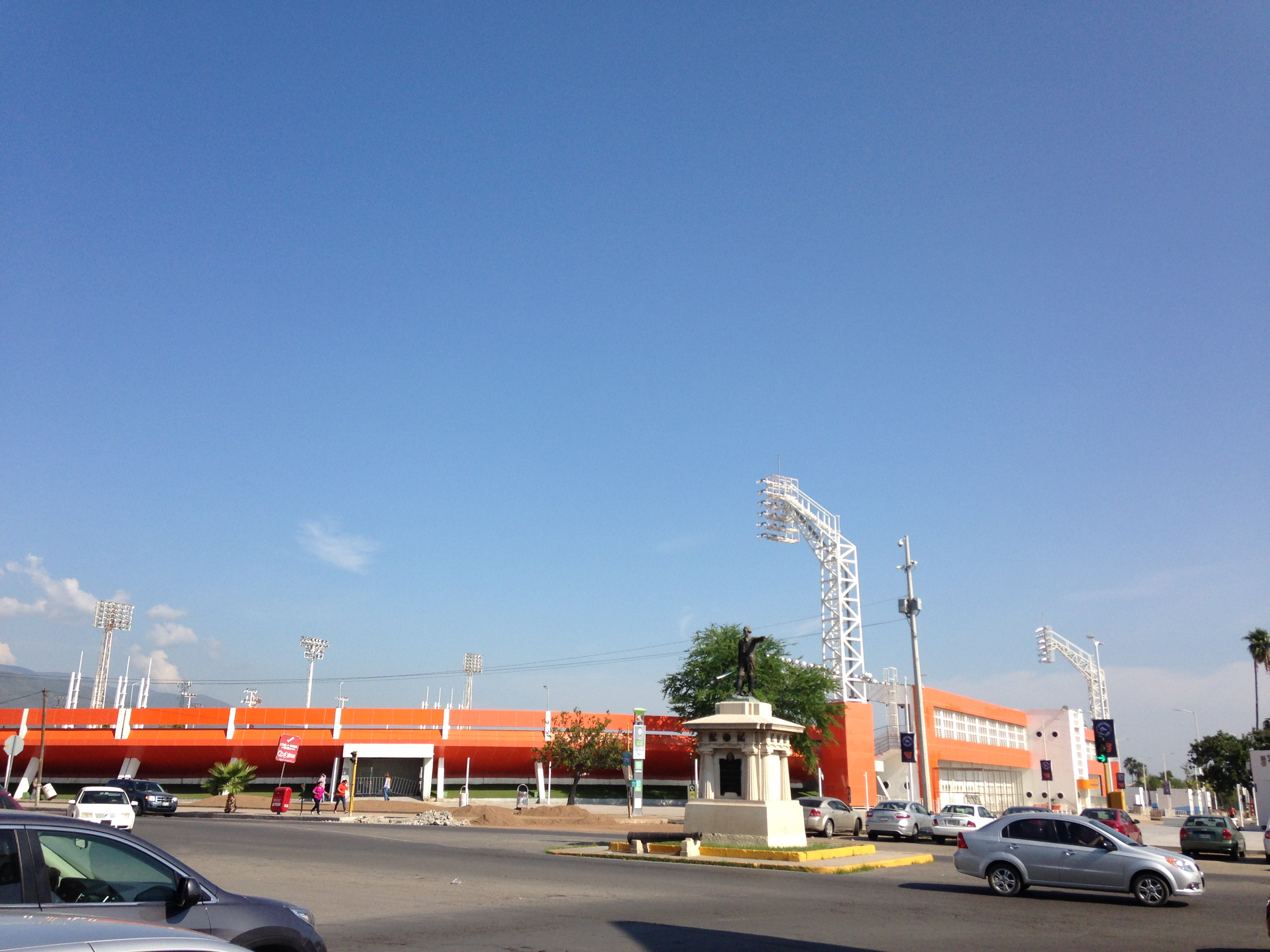 Marte R. Gomez Stadium, outside view from Carrera Torres Avenue. Ciudad Victoria, state of Tamaulipas, Mexico